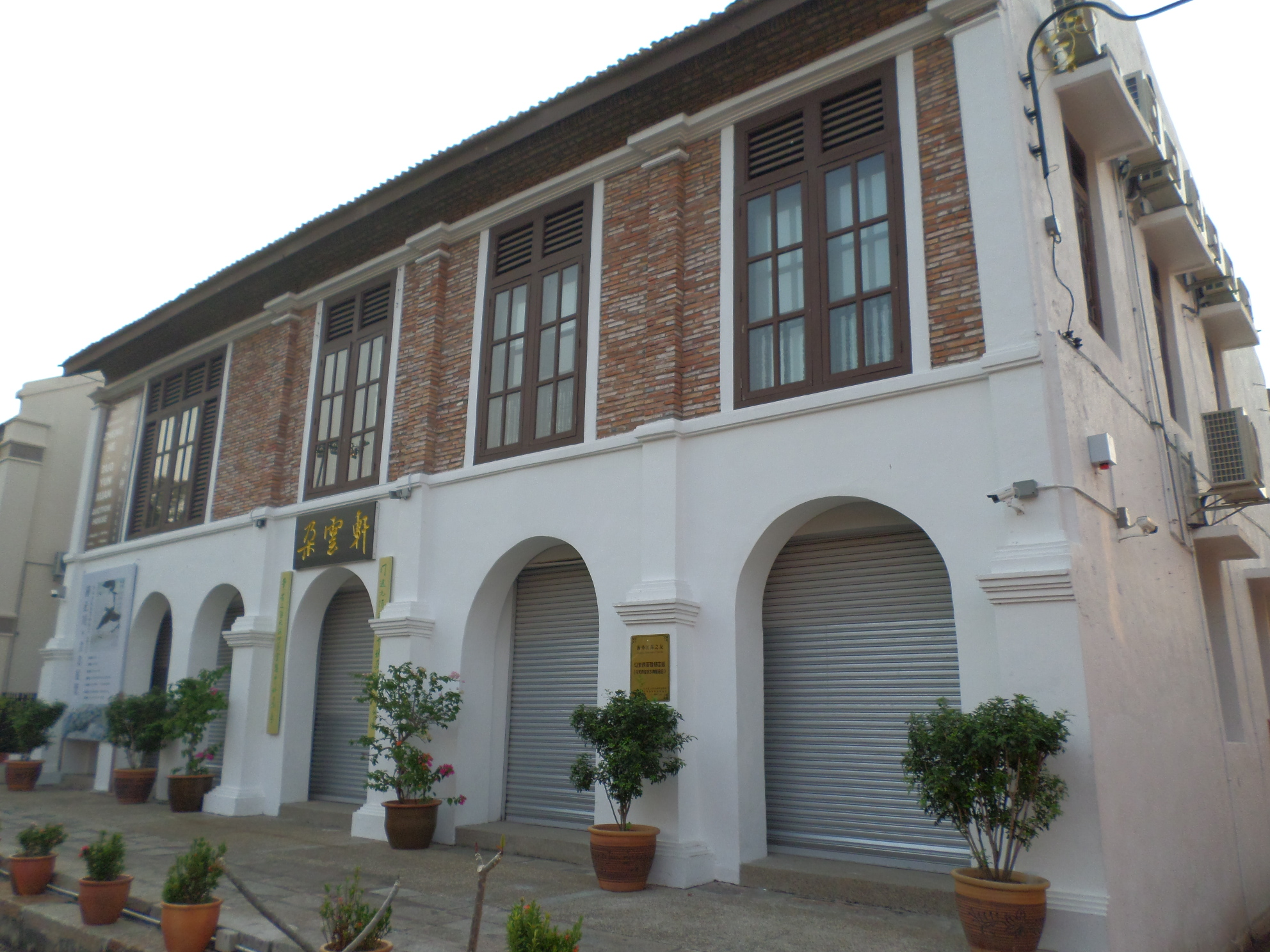 Duo Yun Xuan Auction House, Chinatown, Malacca City, Malacca, Malaysia